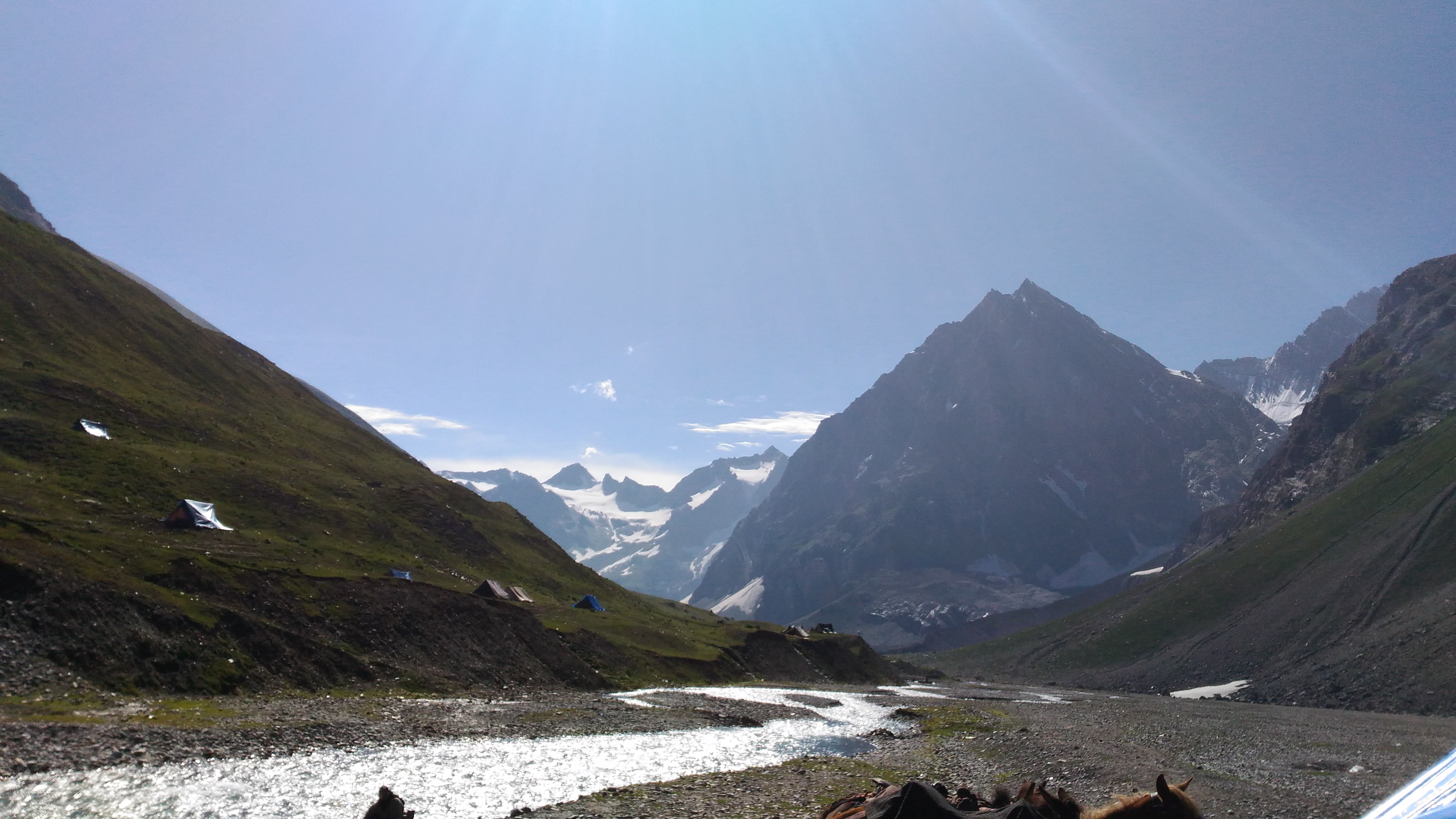 Panchtarani, amarnath, kashmir, nature at its best